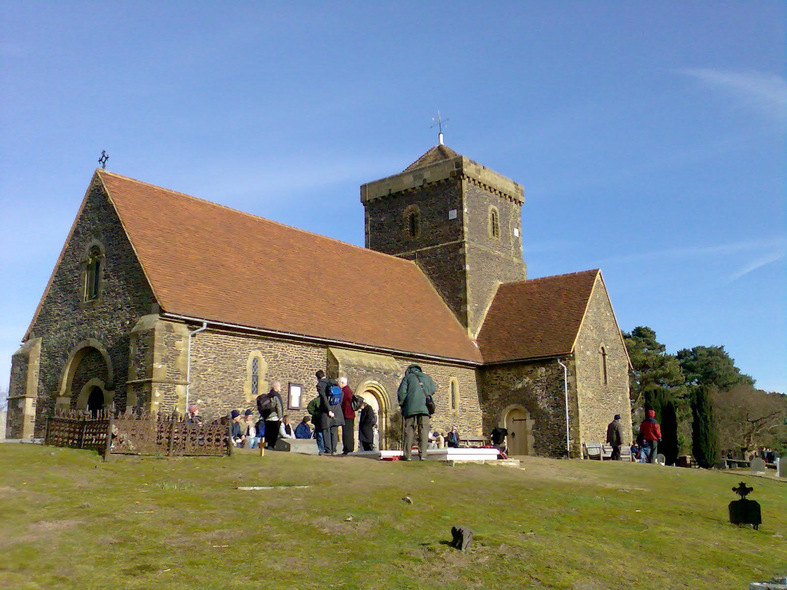 The church of St Martha-on-the-Hill in Surrey, England. The church is dated to the 12th century and is dedicated to Saint Martha (sister of Mary & Lazarus.)